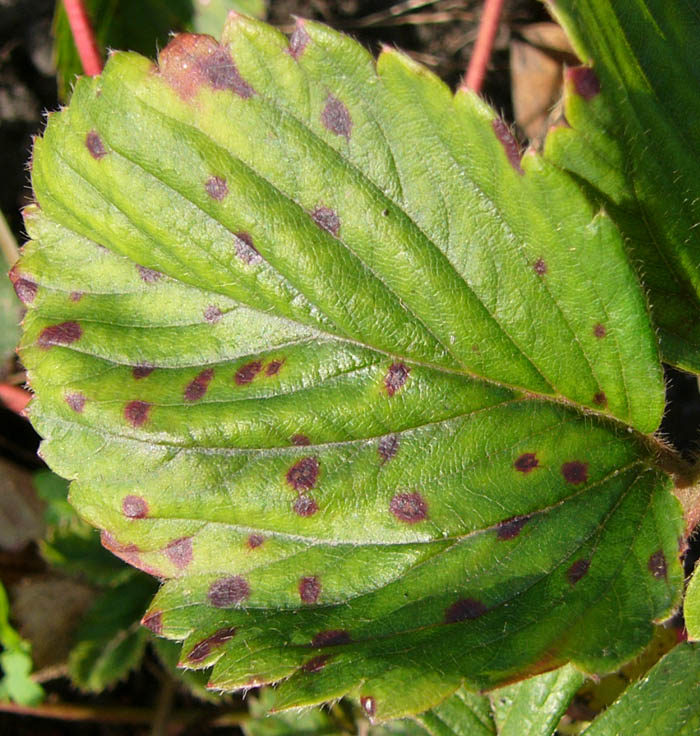 Mycosphaerella fragariae on strawberry. Locality: Czech Republic, Moravia, Olomouc - Bělidla. October 17 2004.